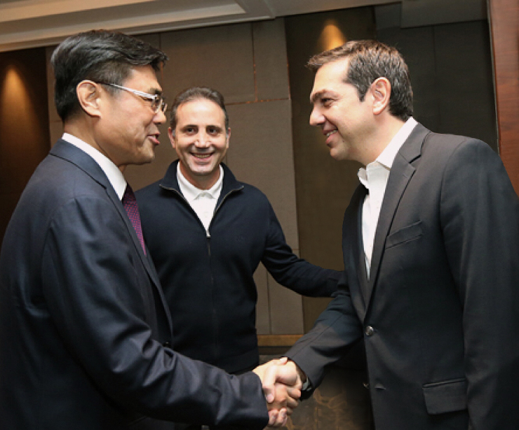 On 12th May, 2017 trilateral meeting the Greek Prime Minister Alexis Tsipras met state Grid Corporation of China Chairman Shu Yinbiao in Beijing and CEO Euroasia Interconnector Nasos Ktorides and had discussions on the jointly promoting of the Belt and Road Initiative and the strengthening of power and energy cooperation.